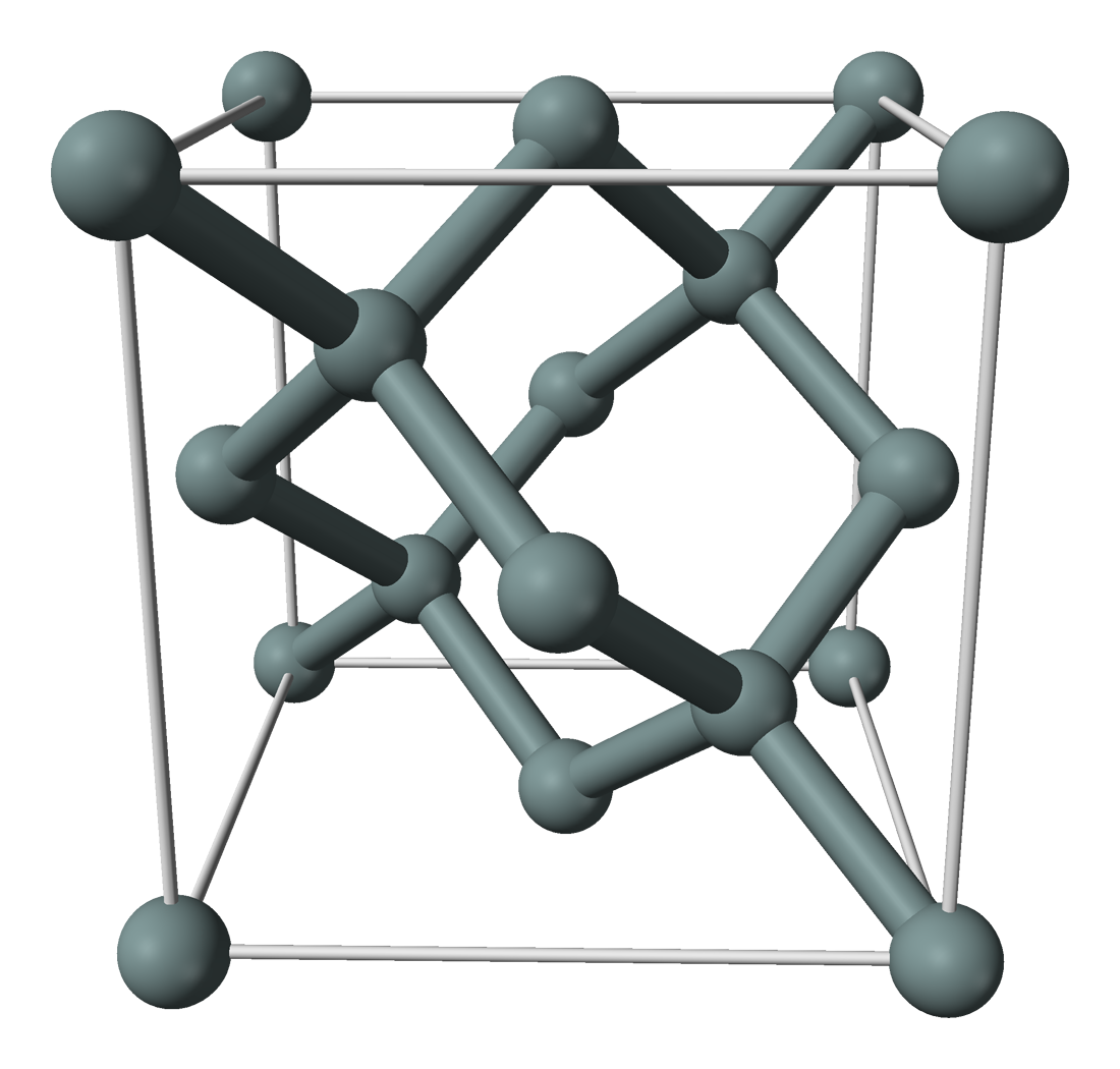 Ball-and-stick model of the unit cell of silicon